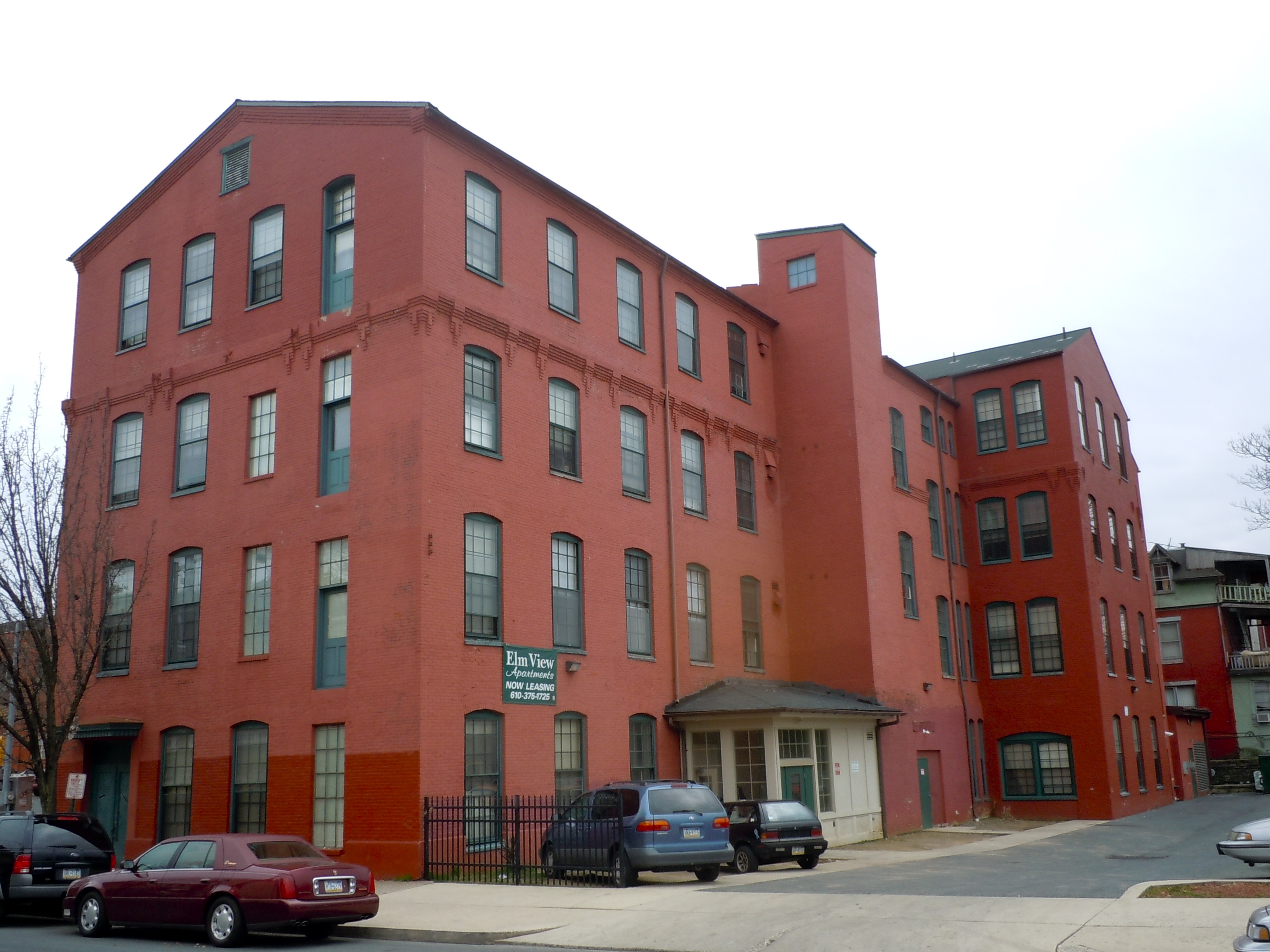 Reading Knitting Mills on the NRHP since April 13, 1982. At 350 Elm Street, Reading, Berks County, Pennsylvania